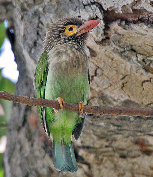 Brown-headed Barbet (Megalaima zeylanica) at Keoladeo National Park, Bharatpur, Rajasthan, India.